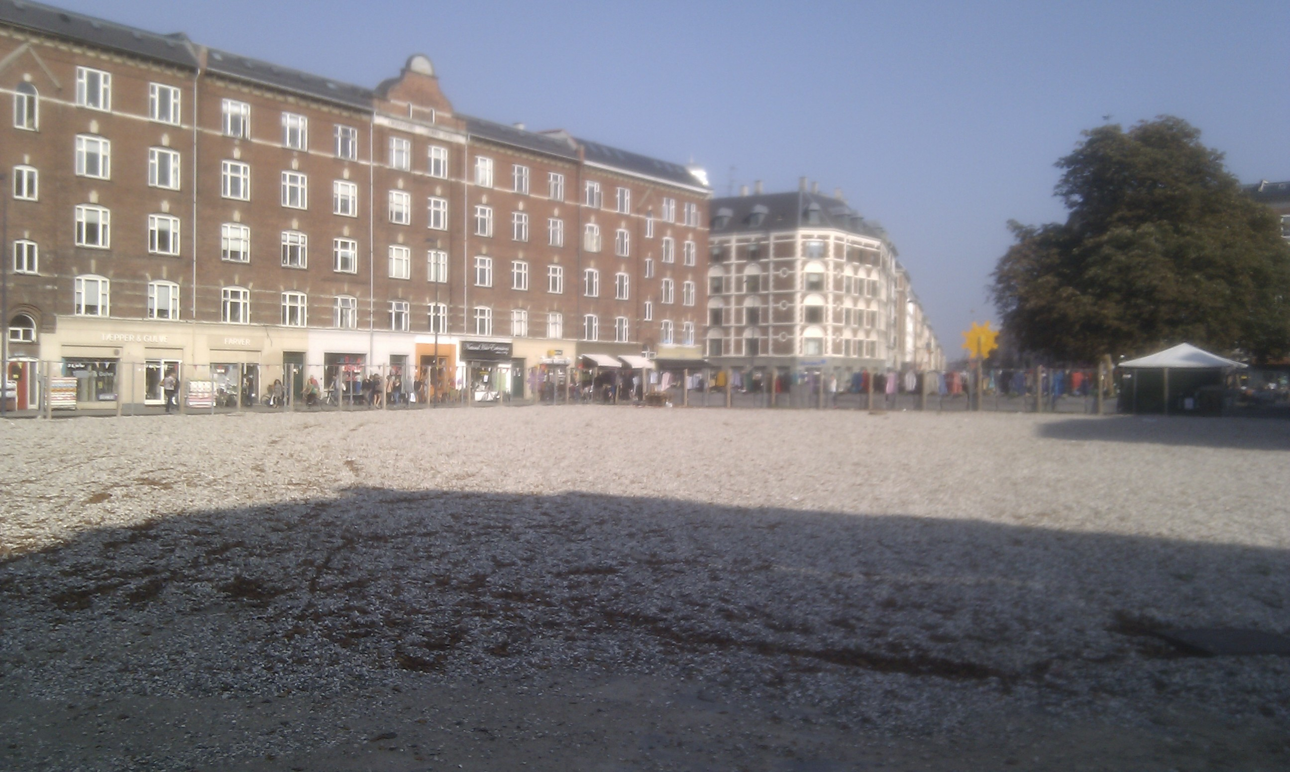 Future site of Enghave Plads metro station.